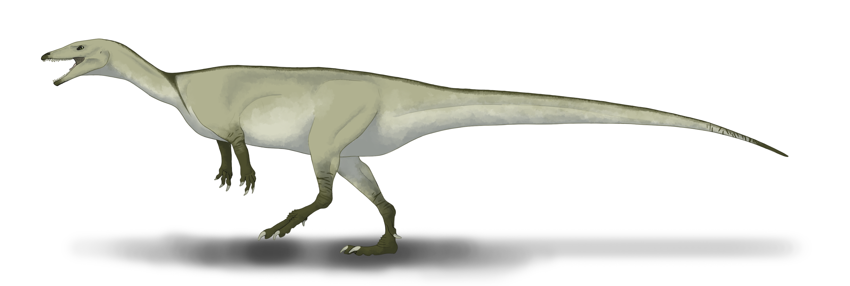 A restoration of Buriolestes schultzi based on skeletal casts, diagrams, and fossil specimens.